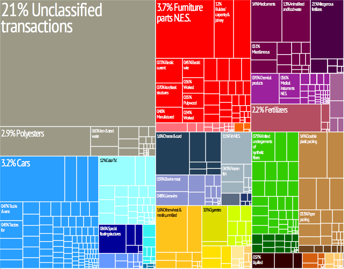 Graphical depiction of the country's product exports in 28 color coded categories. Each colored box represents one product and its size is proportional to the share of the country's total exports that the product represents.